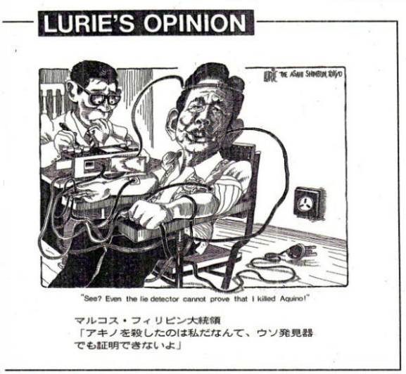 Cartoon of Ferdinand Marcos, created by Ranan Lurie